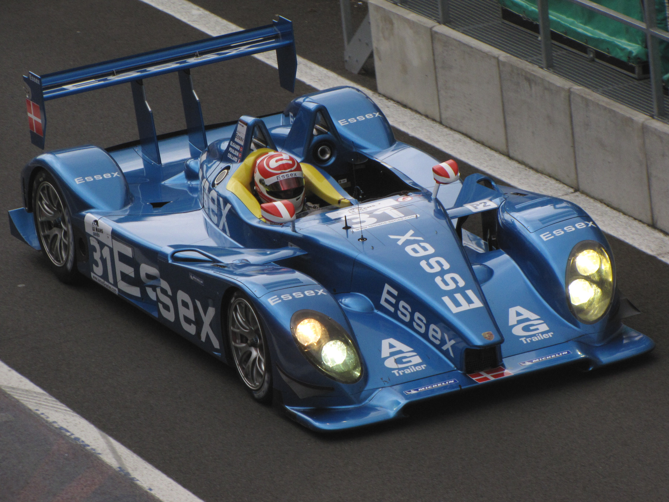 Krisitan Poulsen driving Team Essex Porsche RS Spyder at the free practice in Spa 2009.